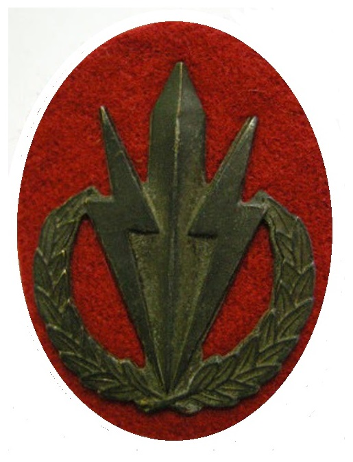 SADF 62 Mech beret badge dull.